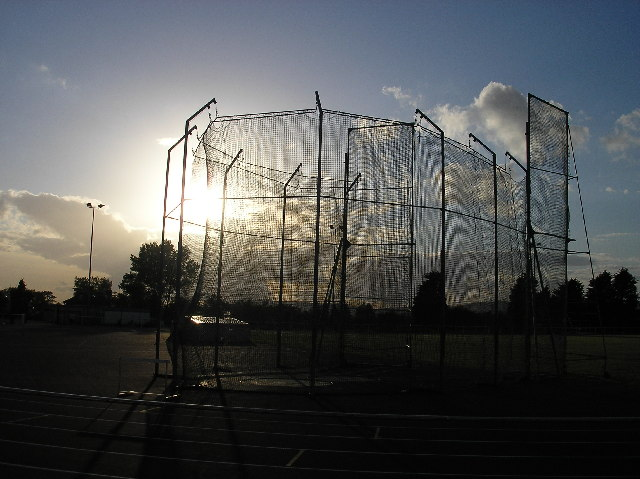 Throwing Cage. University of Wales Institute Cardiff throwing cage near the National Indoor Athletics Centre at Cyncoed. It stops a wayward discus or hammer reaching the track or officials.